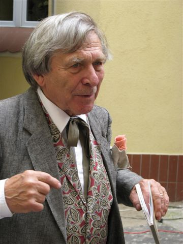 Wojciech Siemion (1928-2010), Polish actor